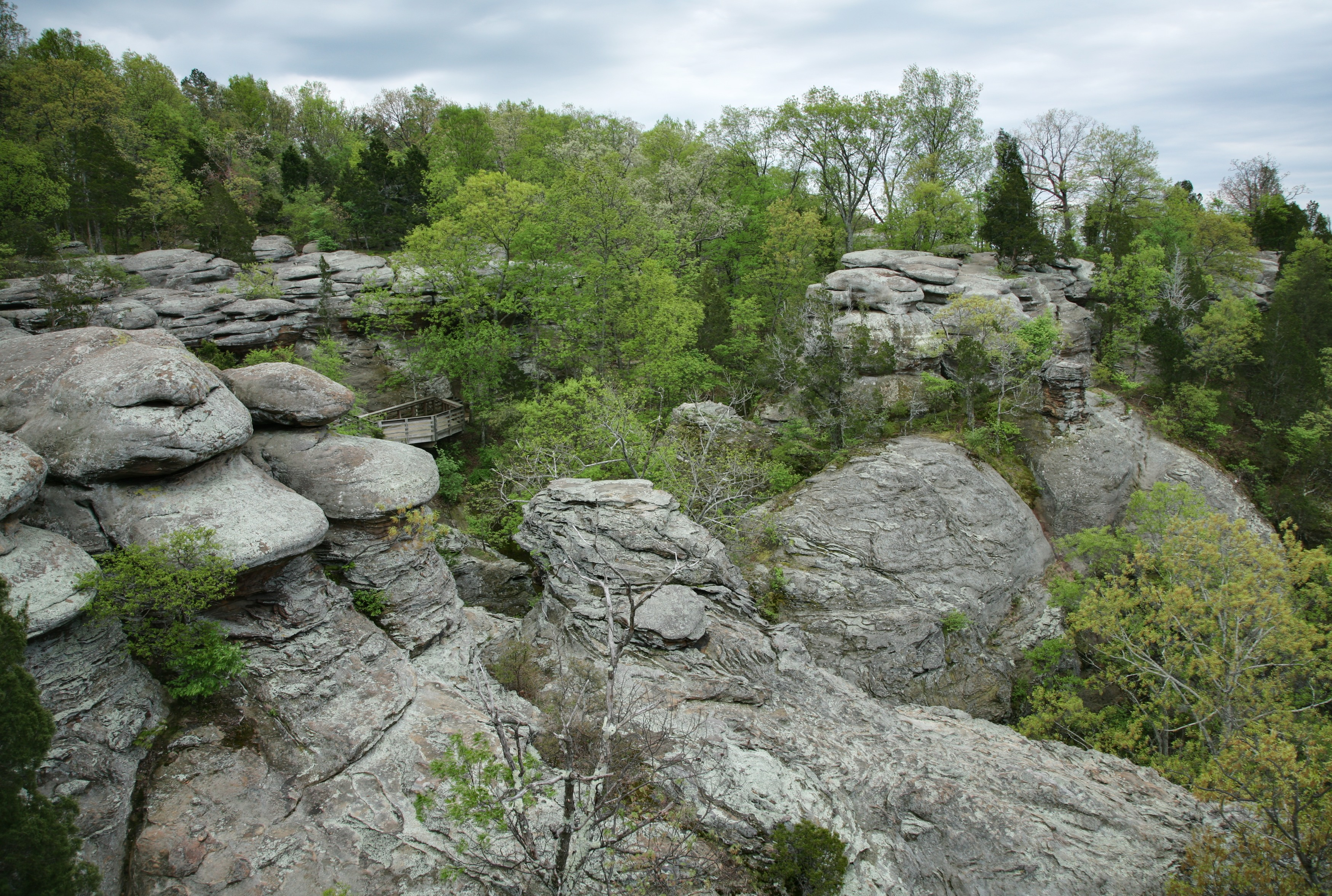 Garden of the gods, in Shawnee National Forrest, Illinois, USA